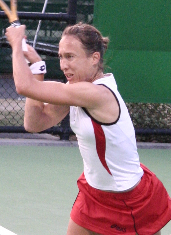 Anne Kremer at their first-round match of the 2007 Australian Open.